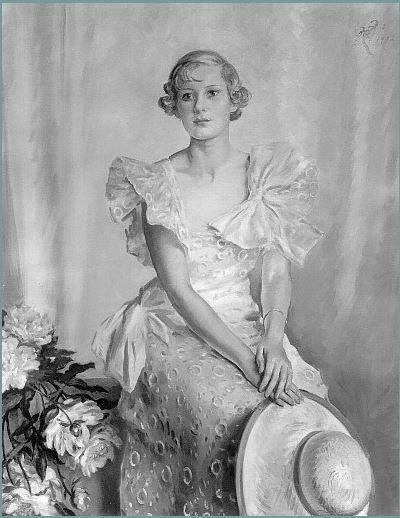 Young Woman (Marina Koshetz, daughter of Nina Koshetz)